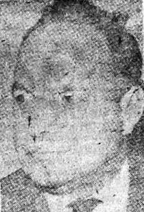 Milan Mišković (1918–1978)